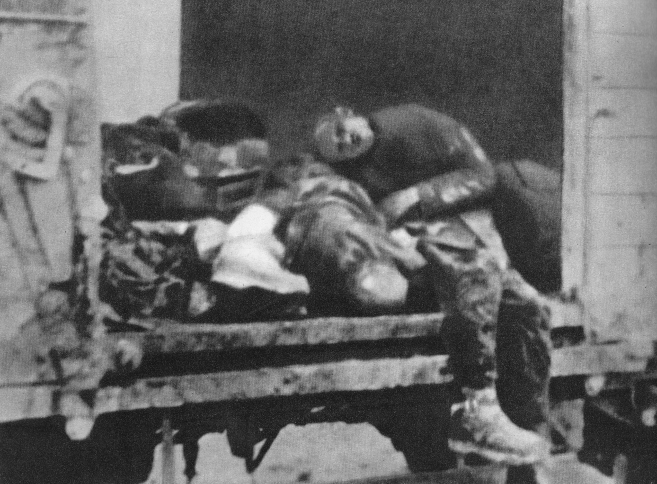 A train from Warsaw Ghetto at Treblinka death camp. Corpses of people who died on the journey.